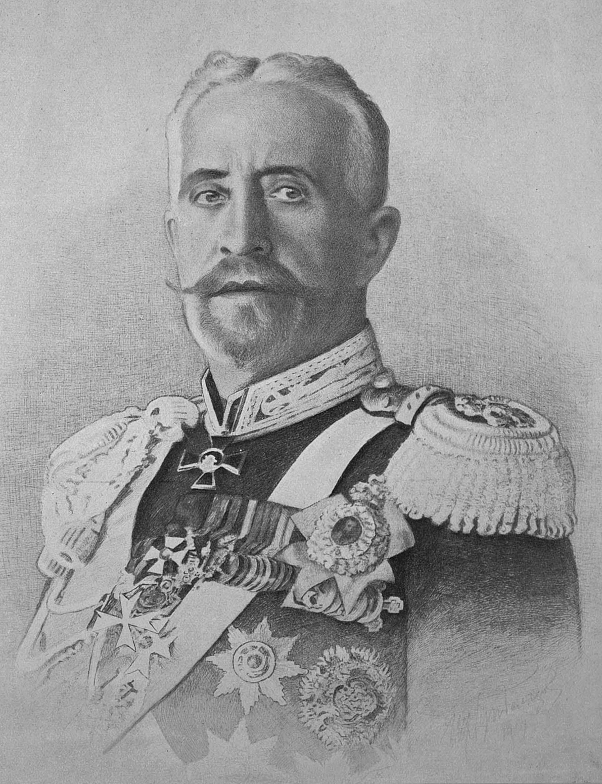 Grand Duke Nicholas Nikolaevich of Russia, the Younger